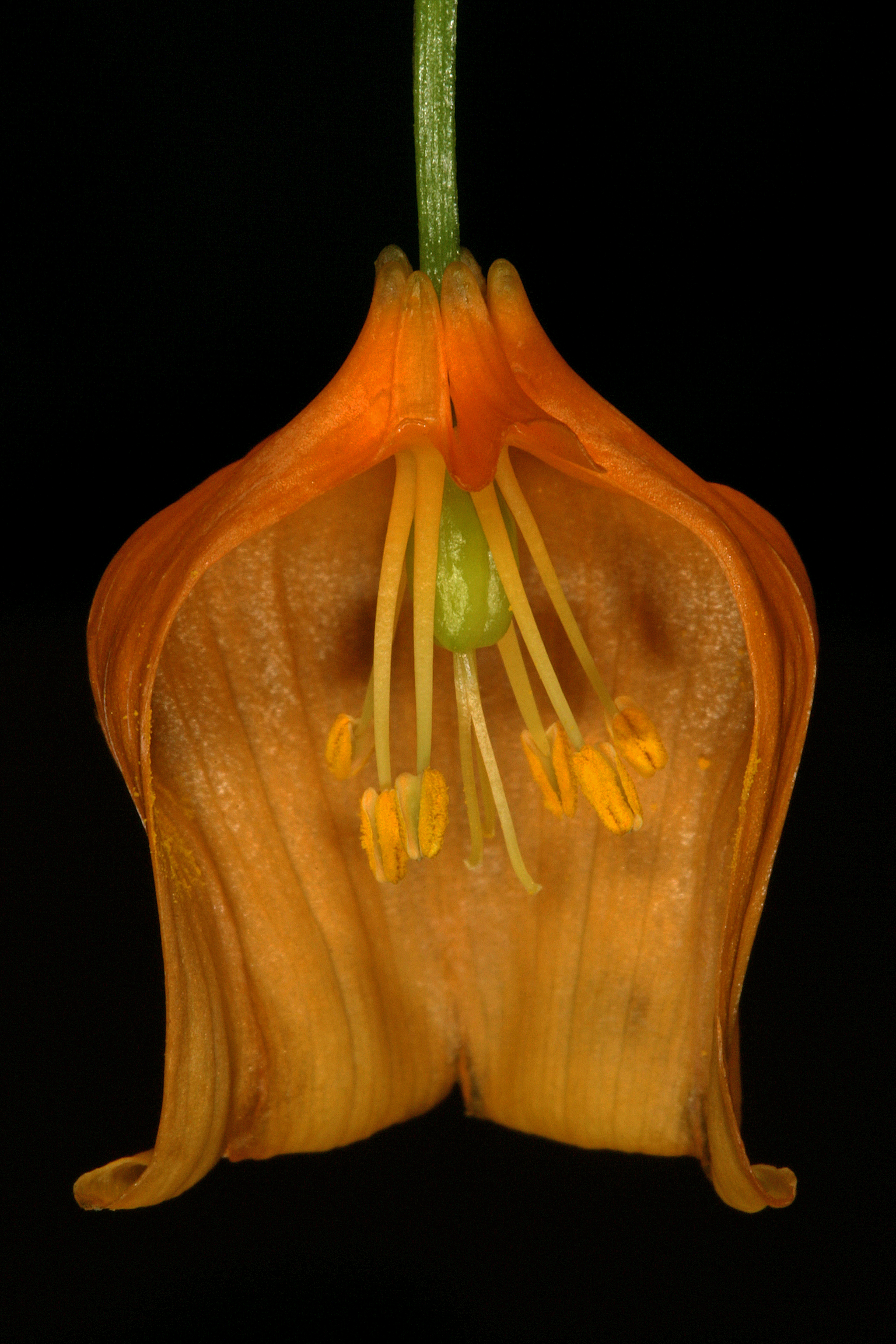 Sandersonia aurantiaca, flower, with front of periant tube cut away to show the gynoecium and androecium